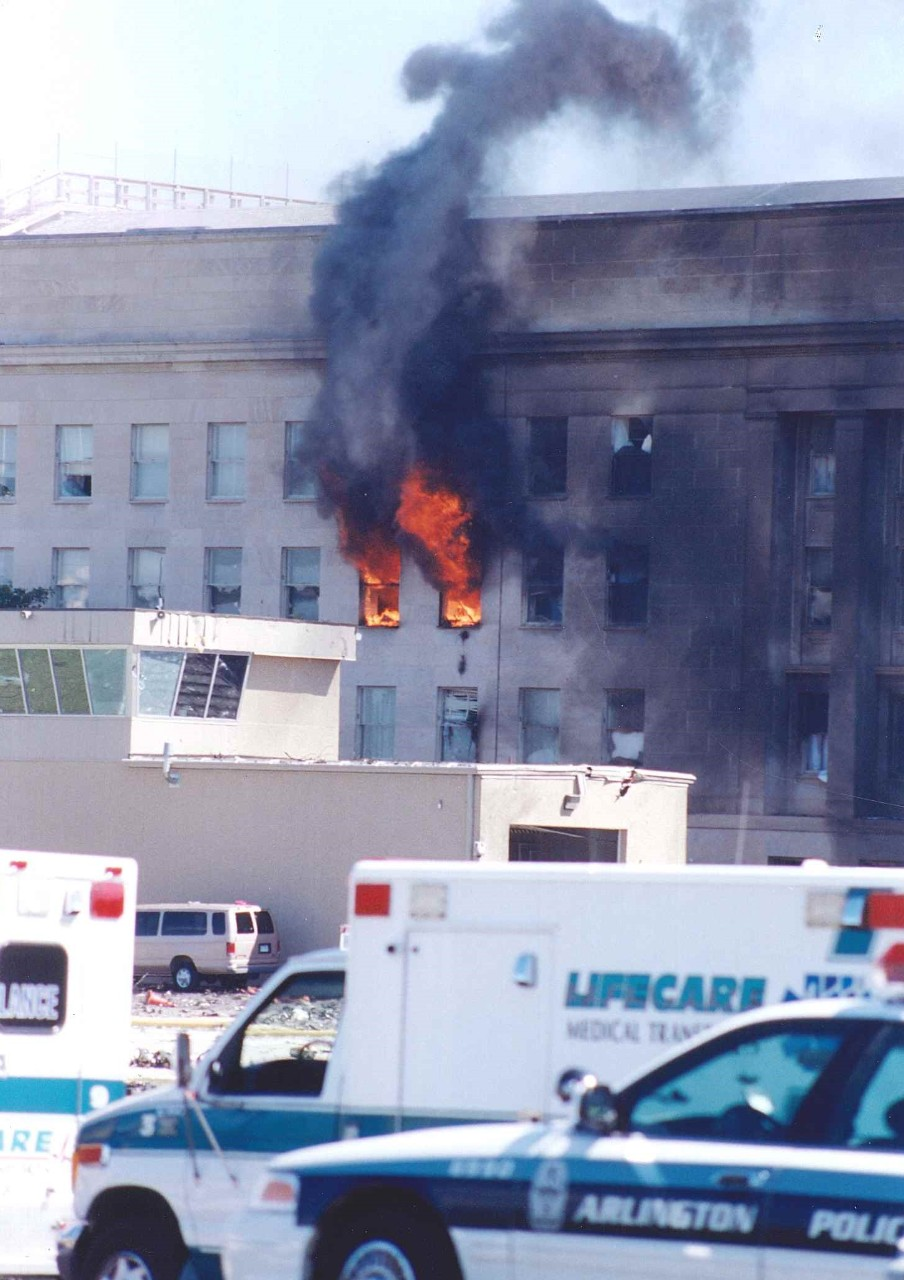 An Arlington County Police car, along with EMS equipment in the foreground at the Pentagon in September 2001.